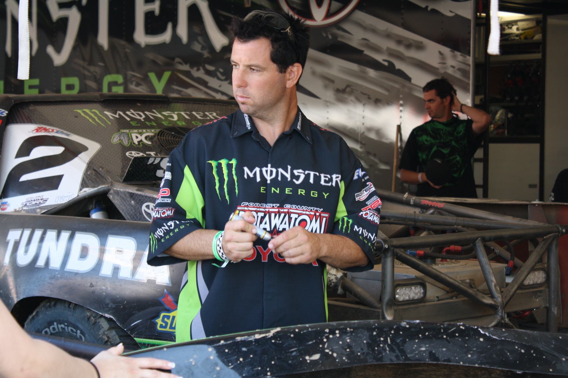 Multiple Motocross and supercross national champion Jeremy McGrath signs autographs at the 2009 Crandon International Off-Road Raceway's Borg-Warner off-road race